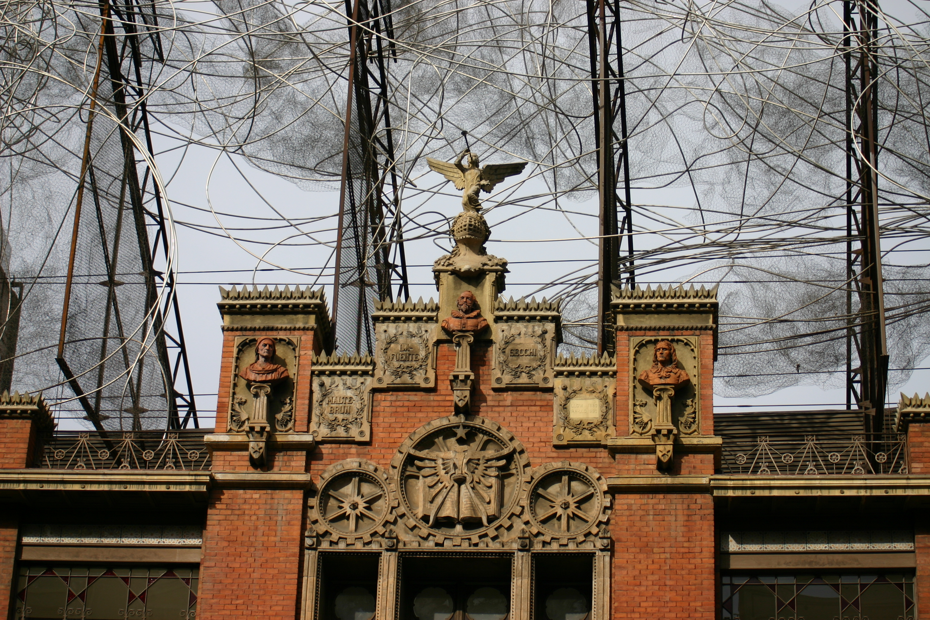 Former Editorial Montaner i Simón building. Currently Fundació Antoni Tàpies' building. Architect:Lluís Domènech i Montaner